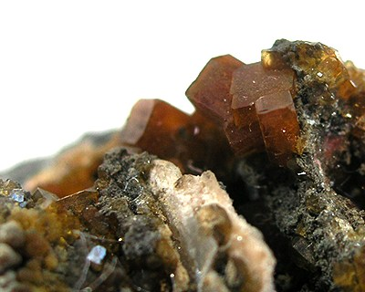 Pharmacosiderite Locality: Graul, Langenberg, Schwarzenberg District, Erzgebirge, Saxony, Germany (Locality at ) Size: miniature, 4.1 x 3.3 x 2 cm Pharmacosiderite This is a rare potassium, iron, arsenate which occurs in fine cubic crystals on matrix along with tiny botryoids of an unknown phosphate?. The crystals are golden �orange, lustrous and gemmy. The largest cube is 2.5 mm across. This is a rich piece, for the locality! The state of Thuringia boundry changed after WW2, hence the locality was formerly known as Schwarzenberg, Thuringia, Germany